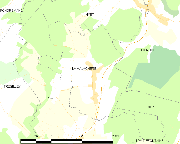 Map of French municipality